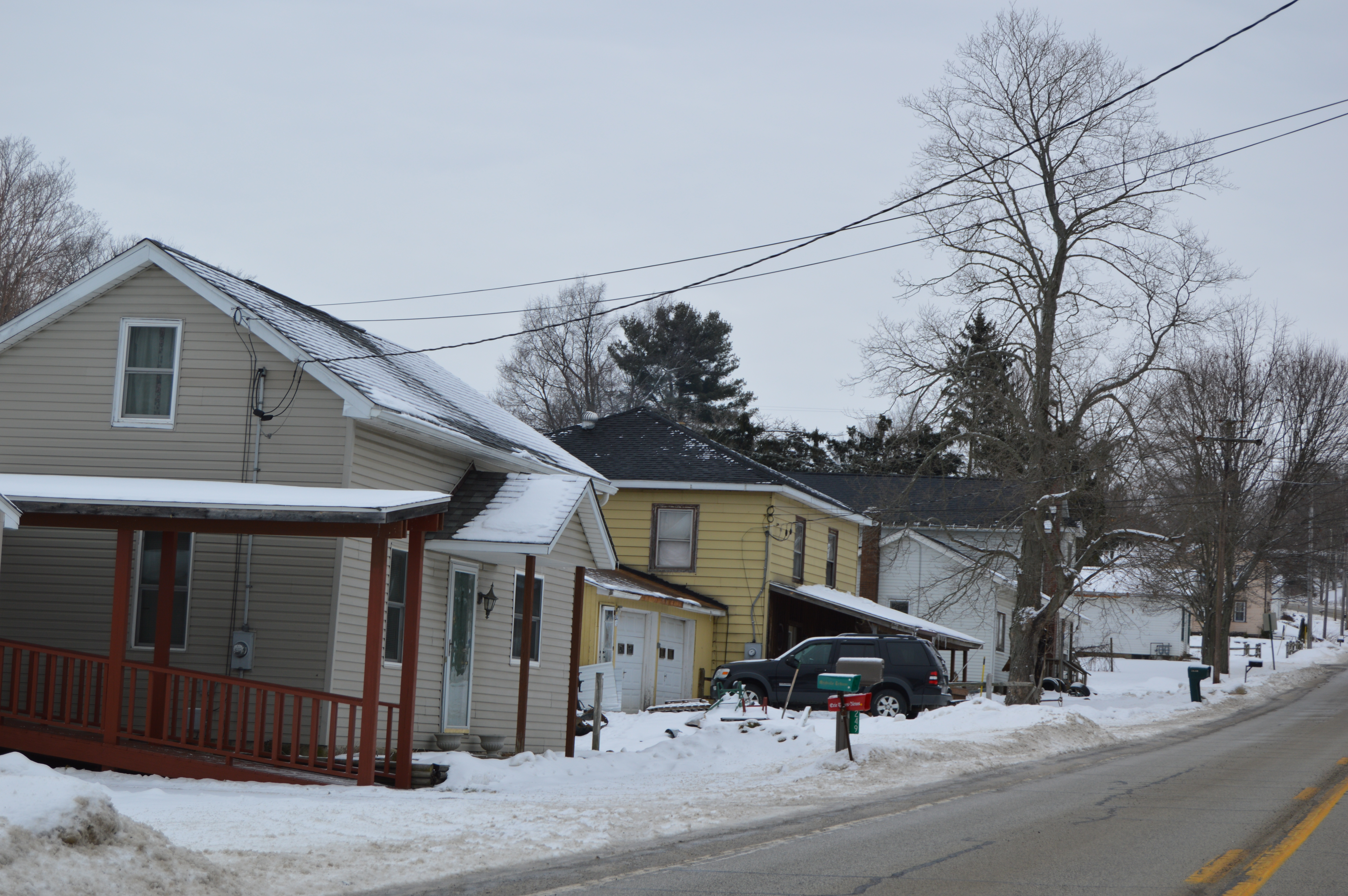 Houses on the western side of Main Street (Pennsylvania Route 86) in southern Woodcock, Pennsylvania, United States.